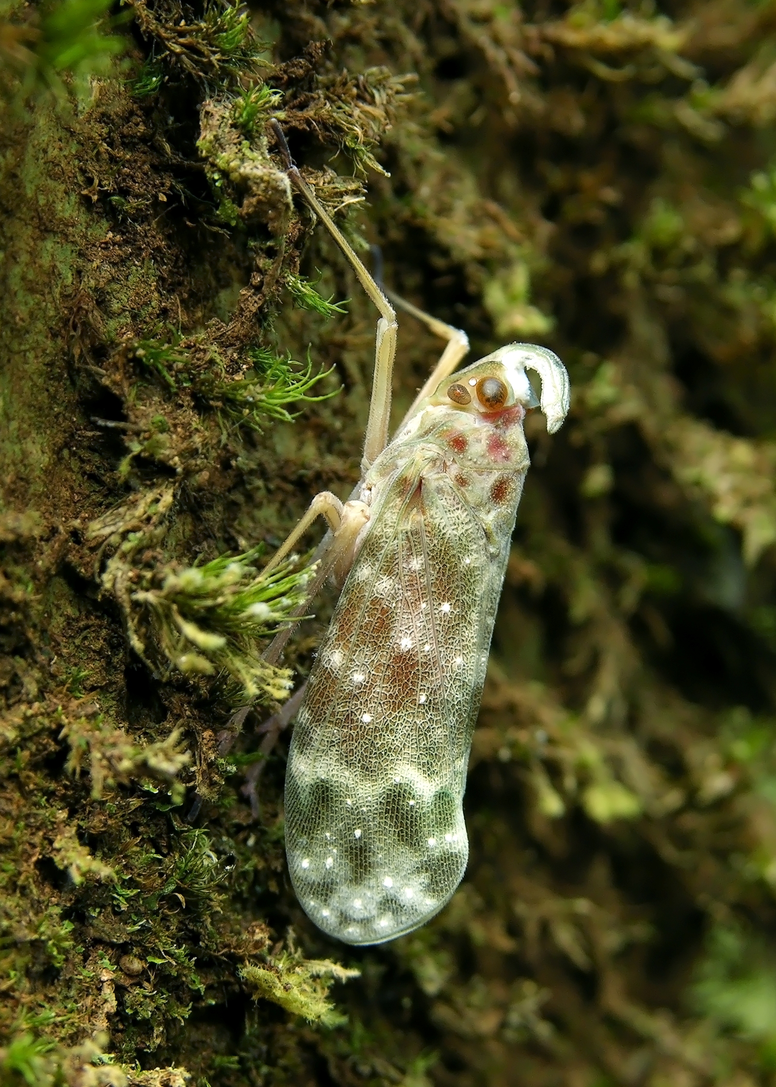 A photograph of Enchophora sanguinea by Kenji Nishida